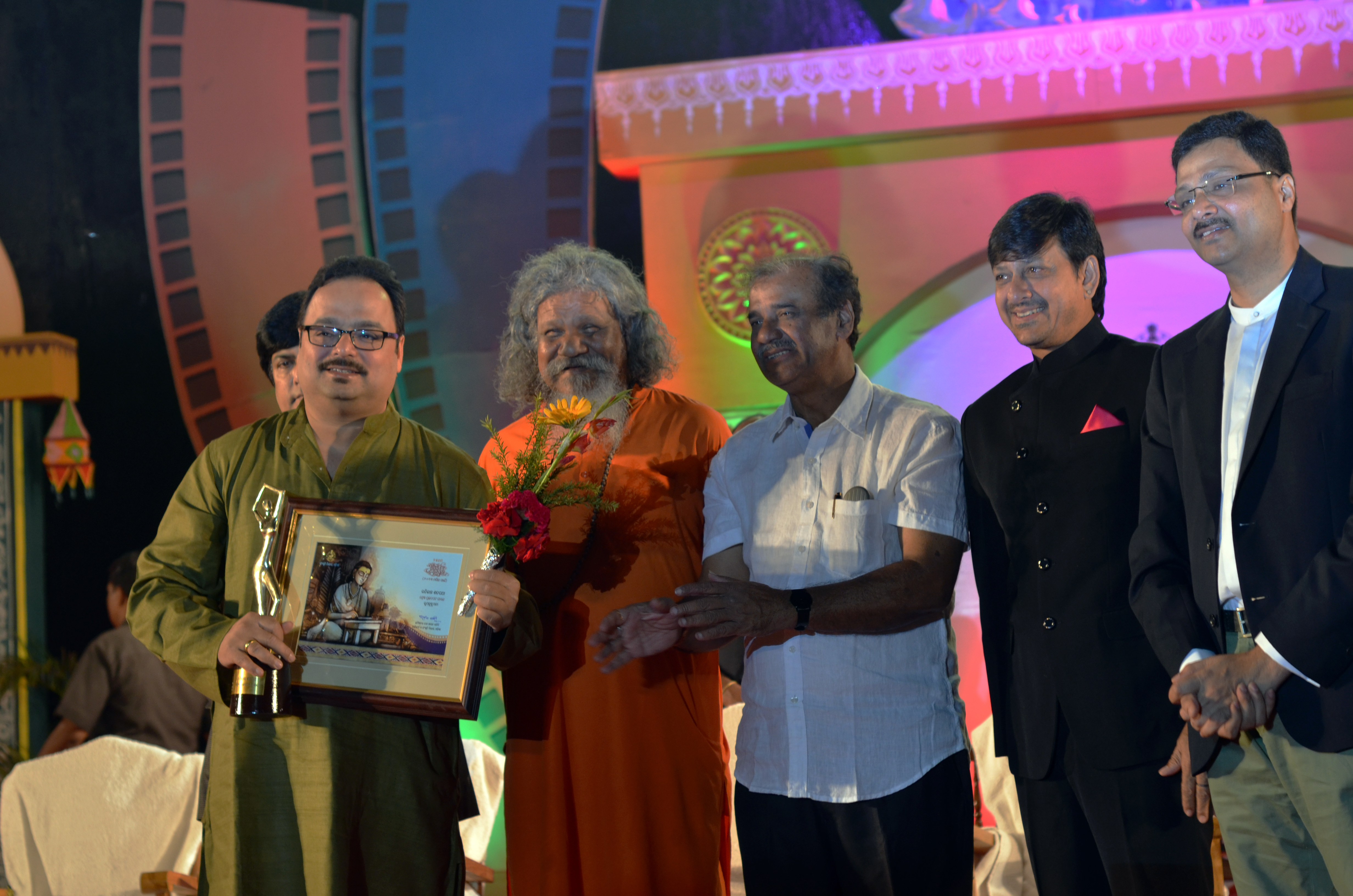 Ratikant Satpathy, Prasanna Patsani, Ashok Panda, Siddhanta Mohapatra, Arabinda Padhee during State Film Awards 2014 at Utkal Mandap, Bhubaneswar, Odisha.